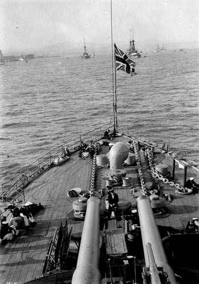 Looking aft over 12-inch guns of British battleship HMS Russell. At the Quebec Tercentenary.